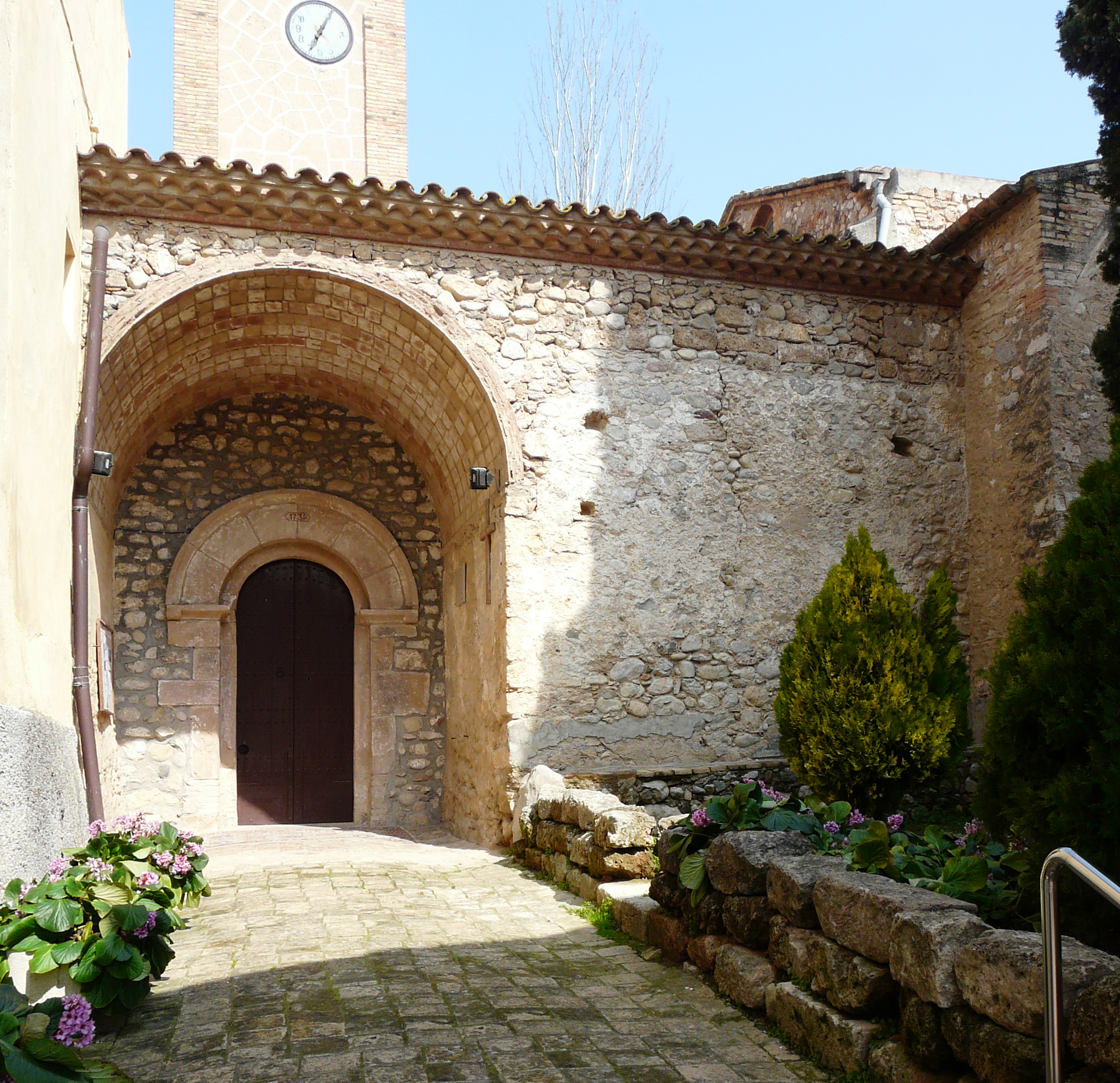 View of the main facade of Sant Jaume Sesoliveres, a Romanic church at Piera (Catalonia)